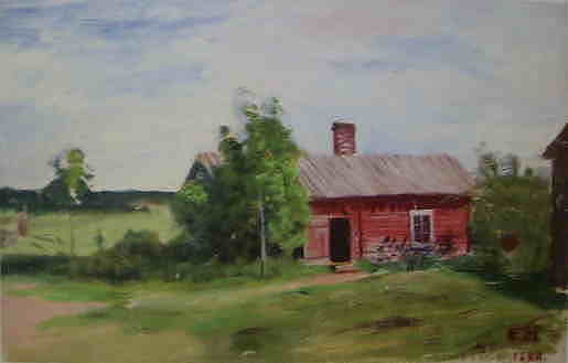 "Uthus på Övre Knapans" Oilpainting by Elias Muukka (Finland), died in 1938